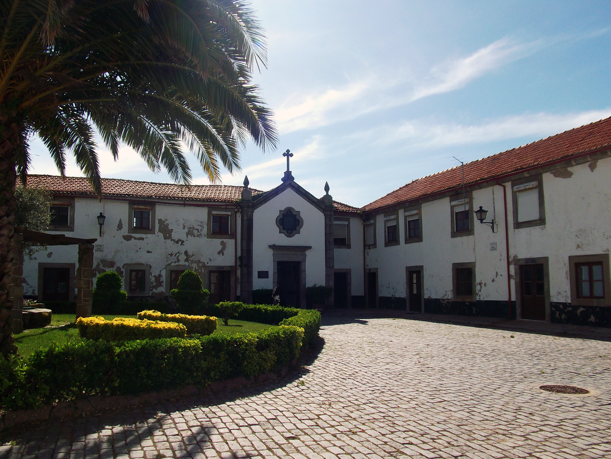 Ground floor of the Fortress of Póvoa de Varzim, Portugal